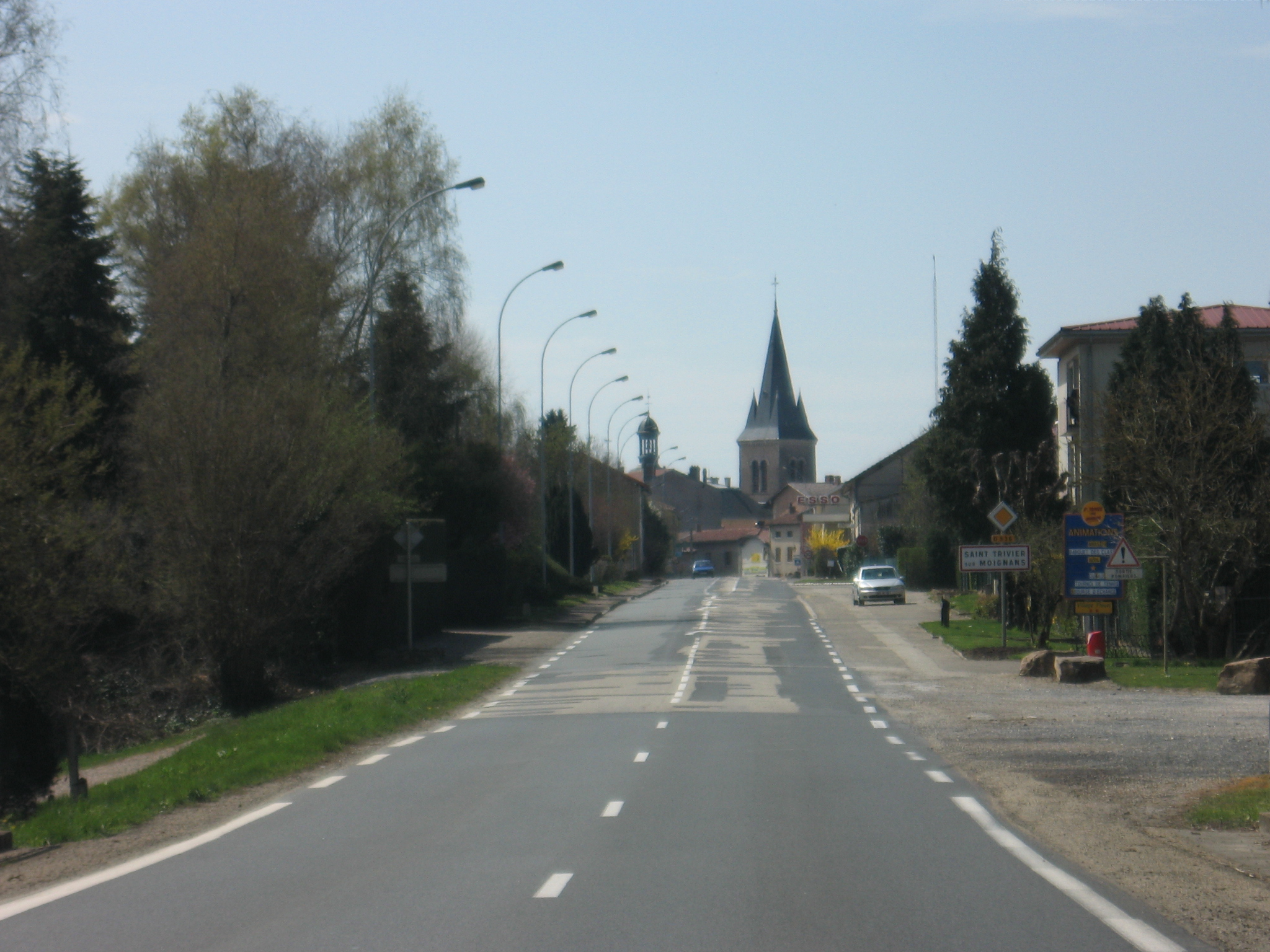 Saint-Trivier-sur-Moignans